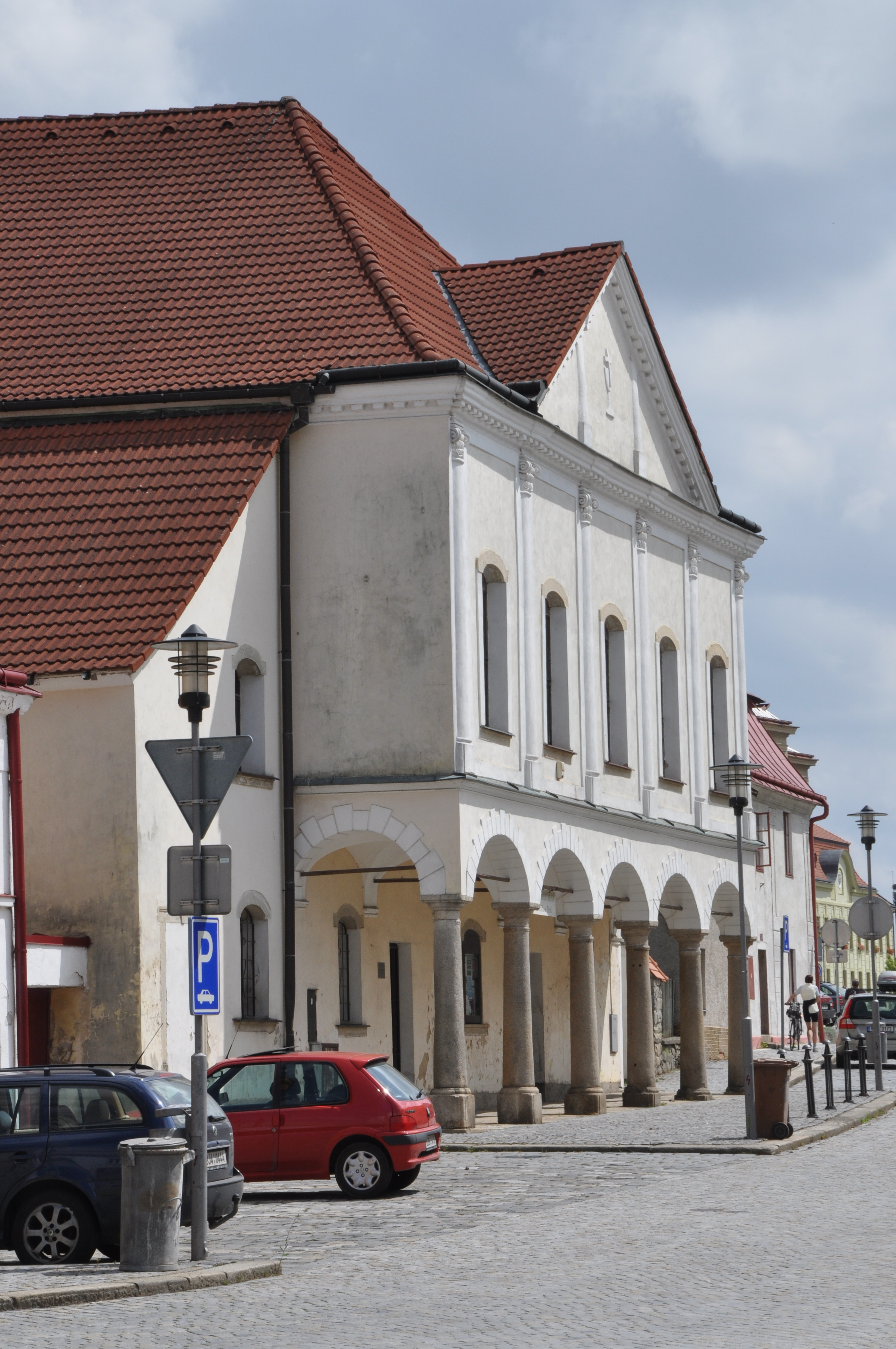 Třešť, Jihlava District, Czech Republic.